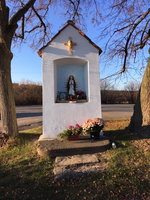 Chapel Ždánice u Kouřimi, district Kolín